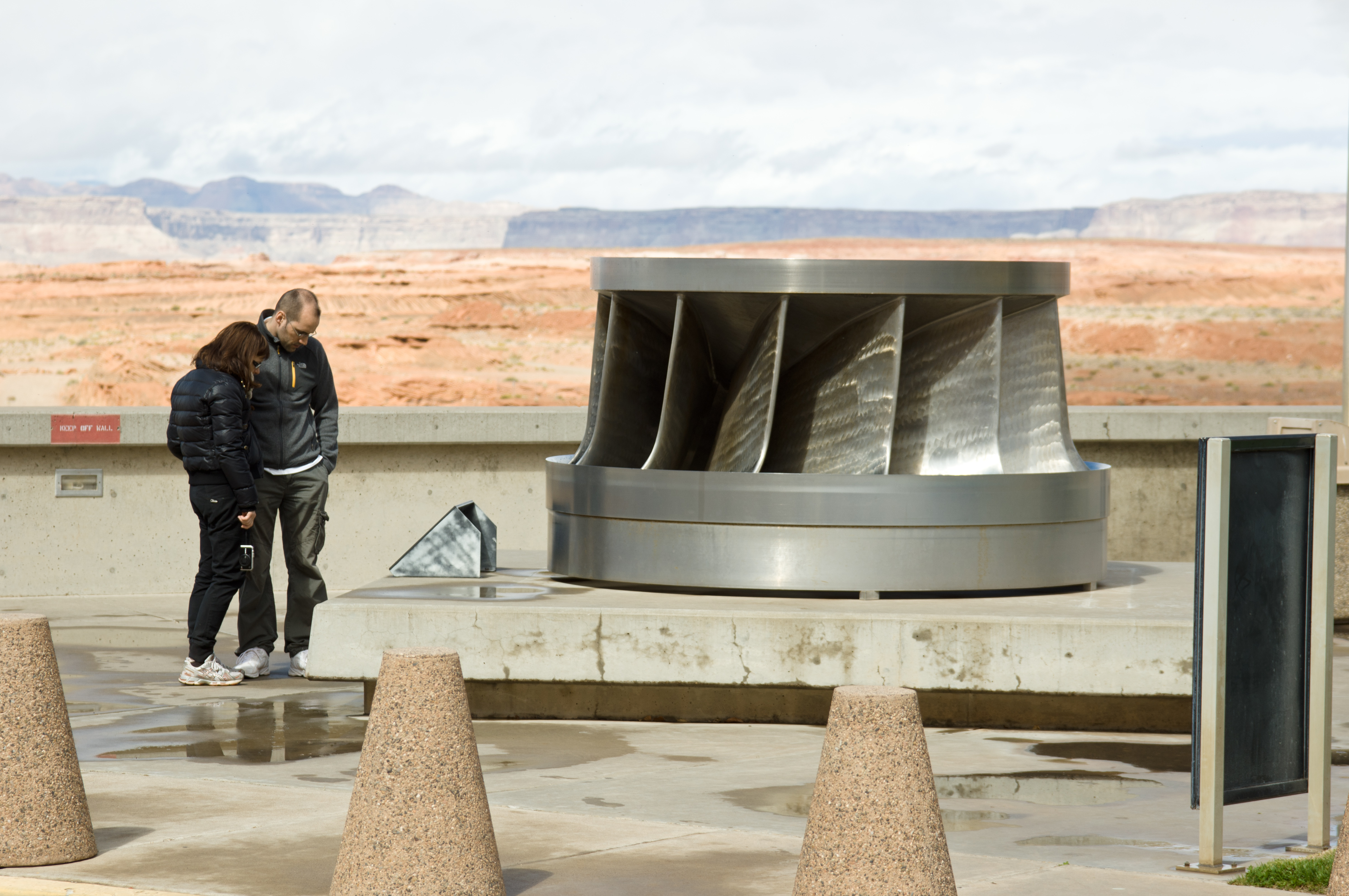 A Francis-type turbine removed in 1989 from Crystal Dam Powerplant and currently displayed near Carl Hayden Visitor Center at Glen Canyon Dam, Arizona